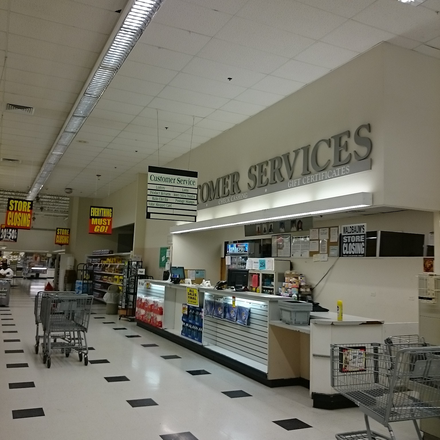 Waldbaums During Bankruptcy. This was taken at the location in 1530 Front Street in East Meadow, NY.